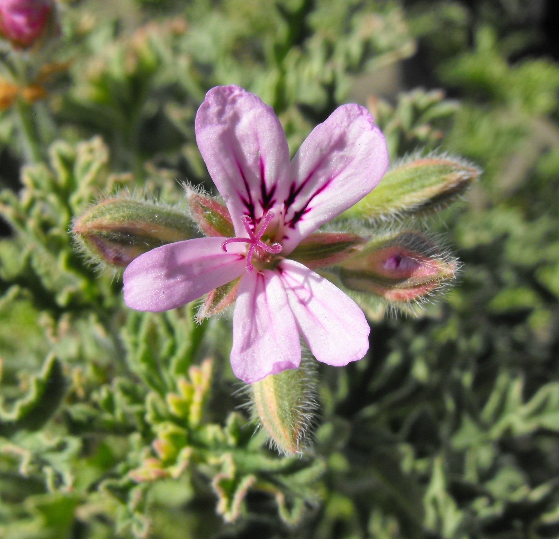 Pelargonium 'Lady Plymouth' at the San Diego Home & Garden Show, Del Mar, California, USA. Identified by exhibitor's sign.